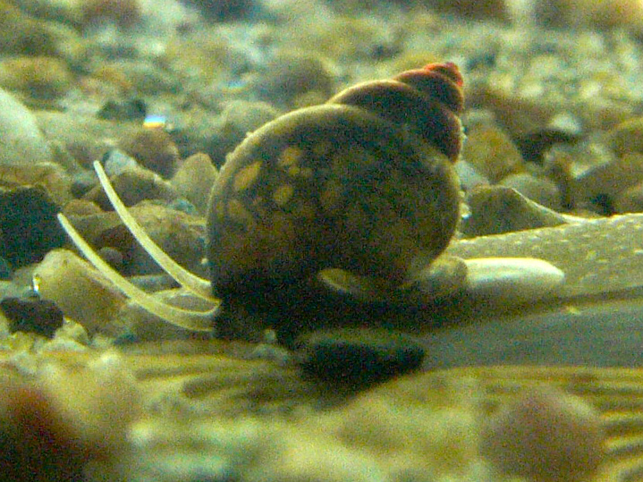 Photo of left side view of a live Bithynia tentaculata. (Determined by myself).